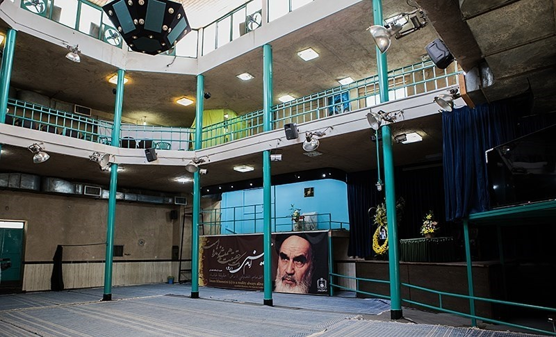 Ruhollah Khomeini’s residency in Jamaran